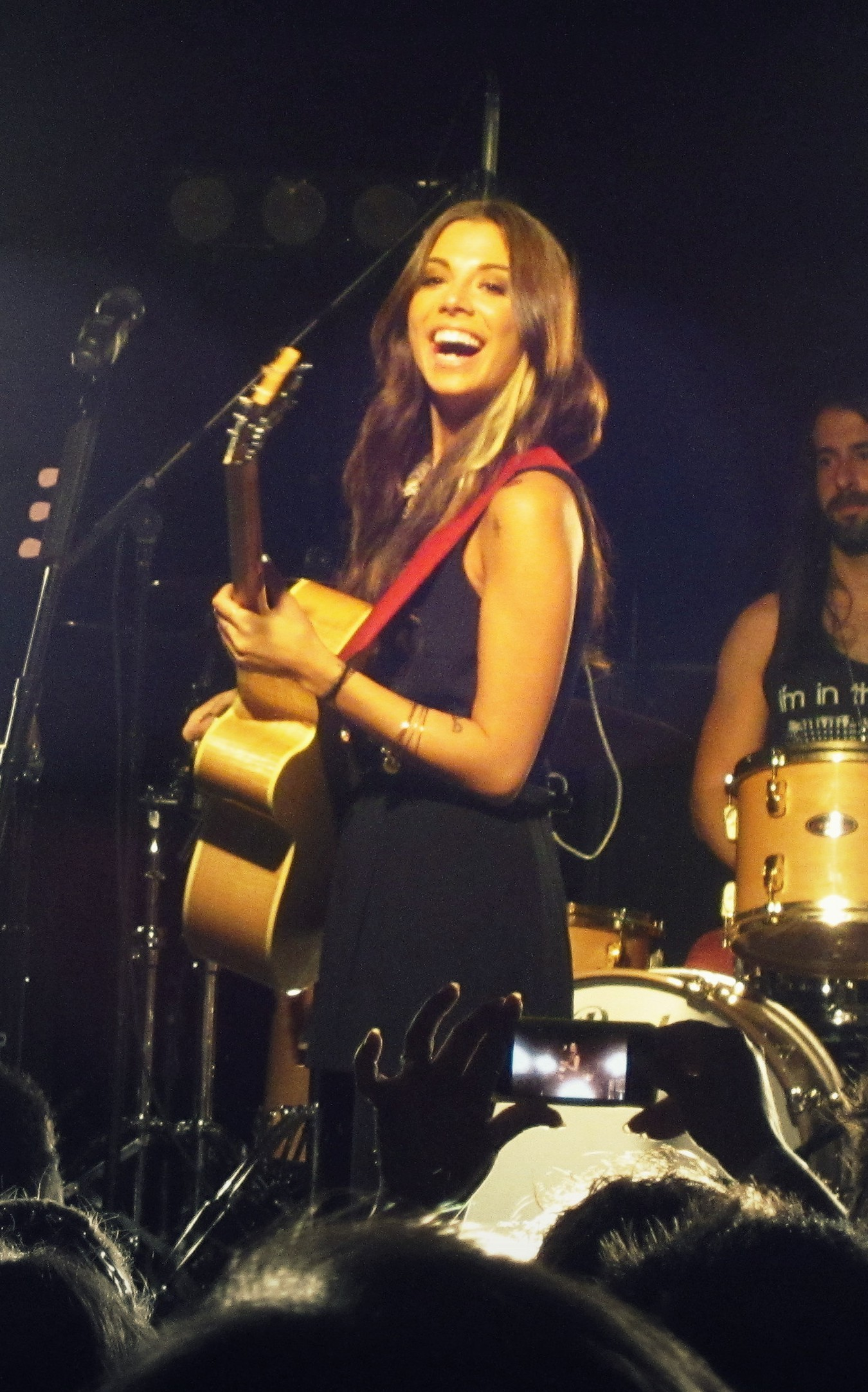 Christina Perri concert in 2012